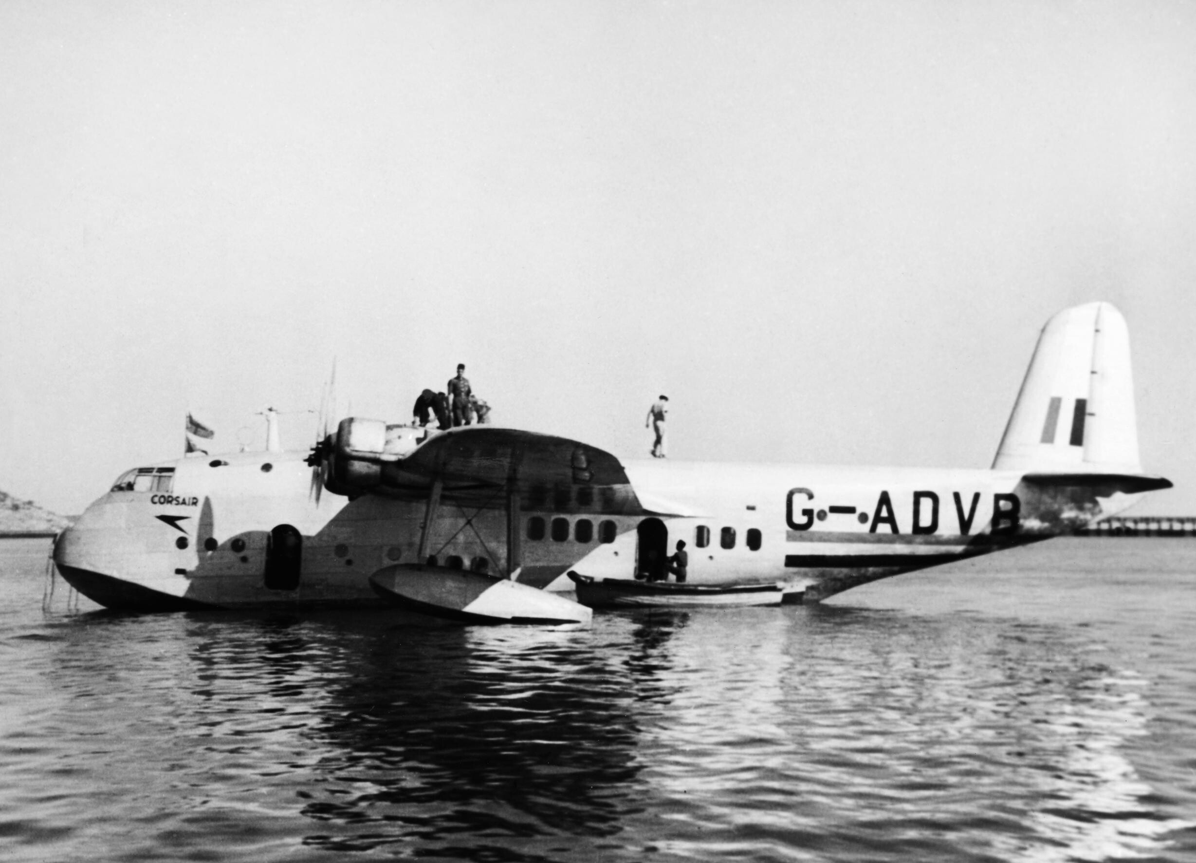 British Overseas Airways Corporation and Qantas, 1940-1945. Short S.23 'C' Class Empire Flying Boat, G-ADUV "Corsair", moored on the lake at Gwalior, India.